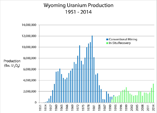 USGS Wyoming uranium production